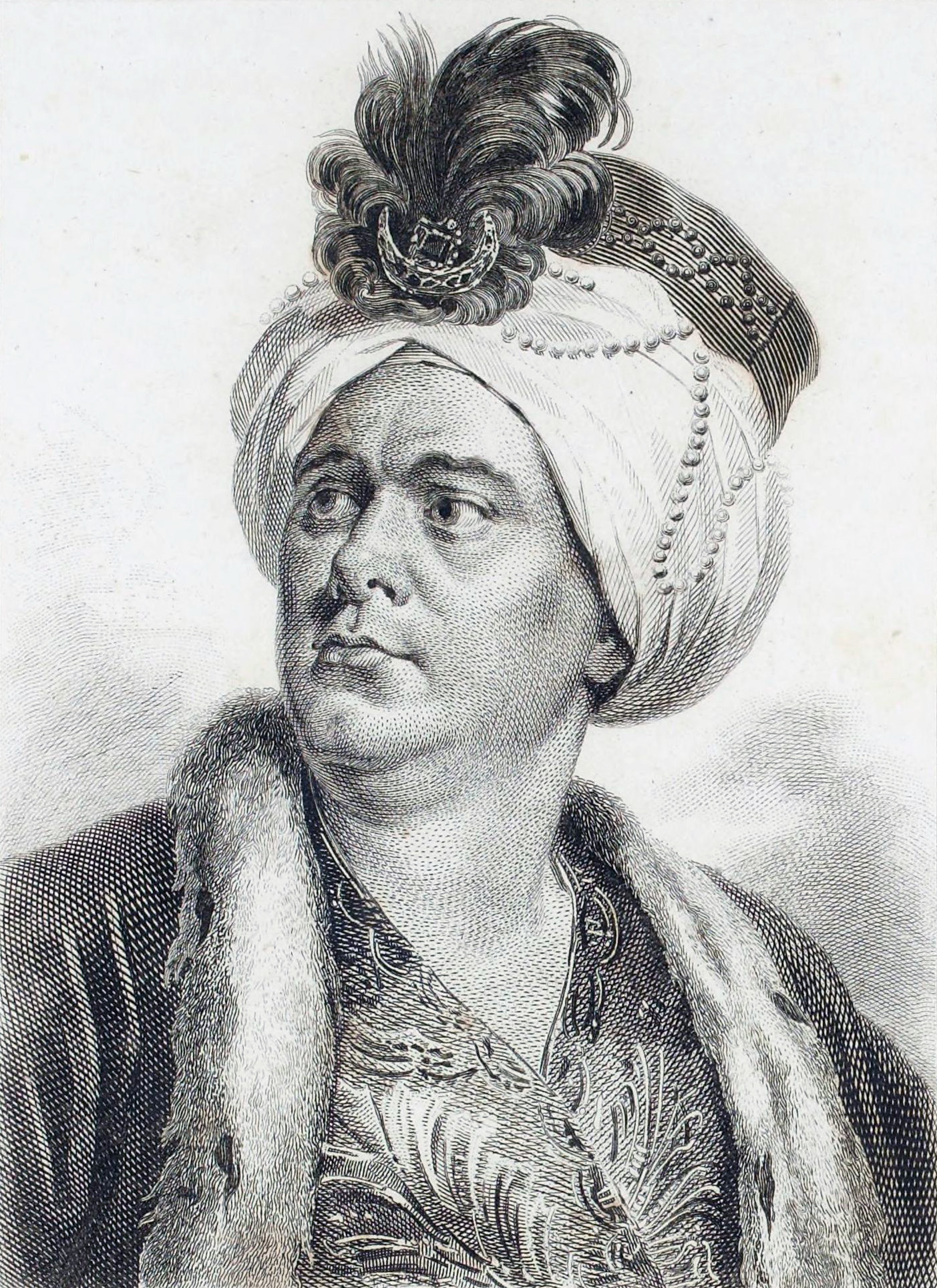 Portrait of the Franch actor Lekain